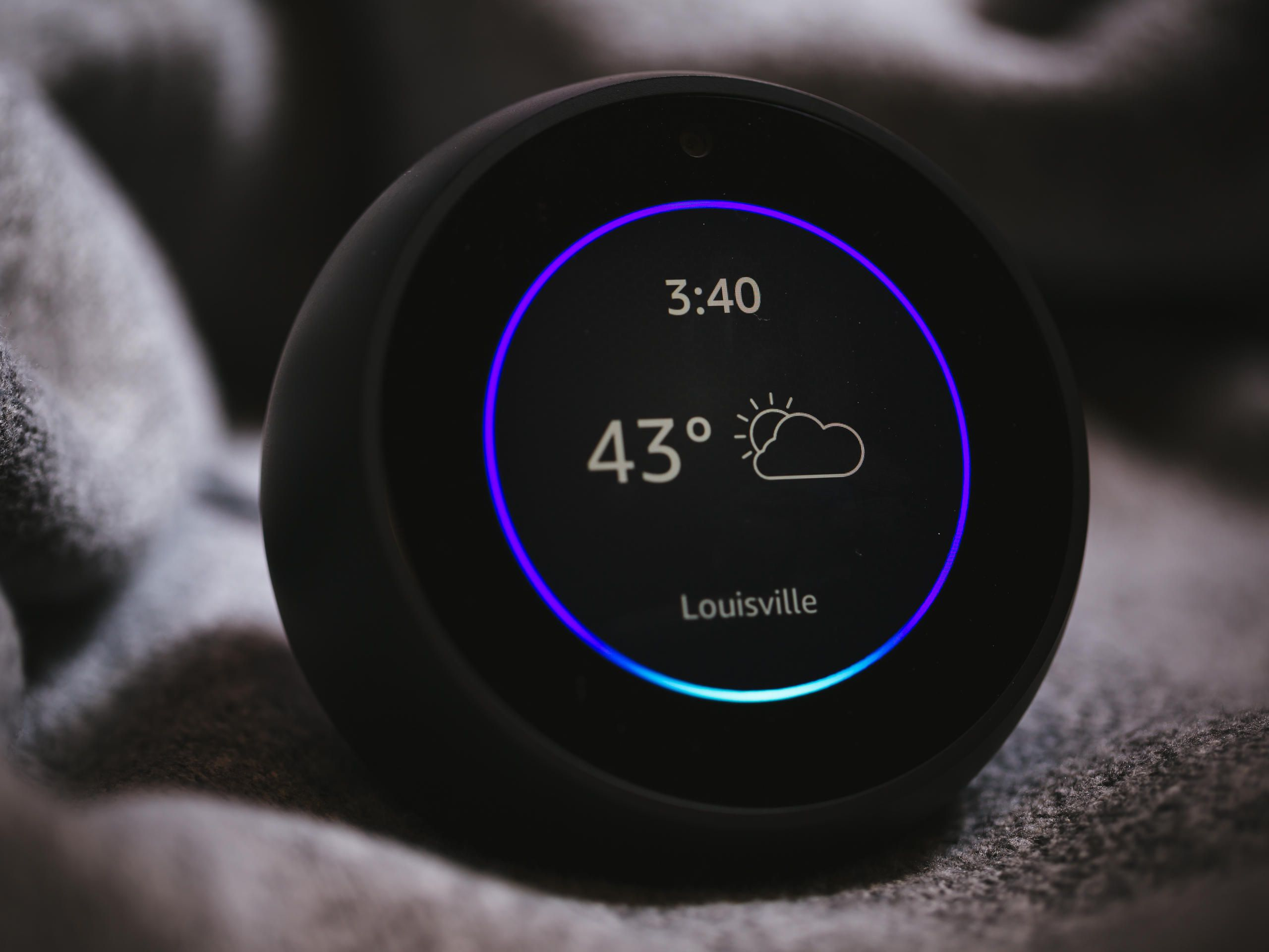 An Echo Spot